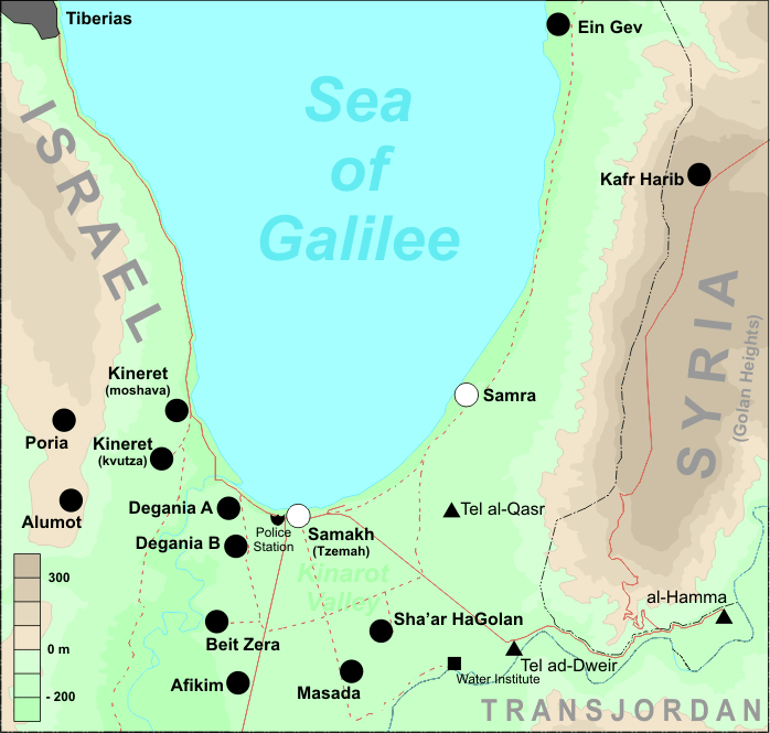 Topographic version of the map at Image:Kinarot_valley.png, showing the area on the evening of May 14, 1948.